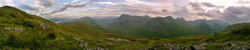 Glen Coe in the Scottish Highlands